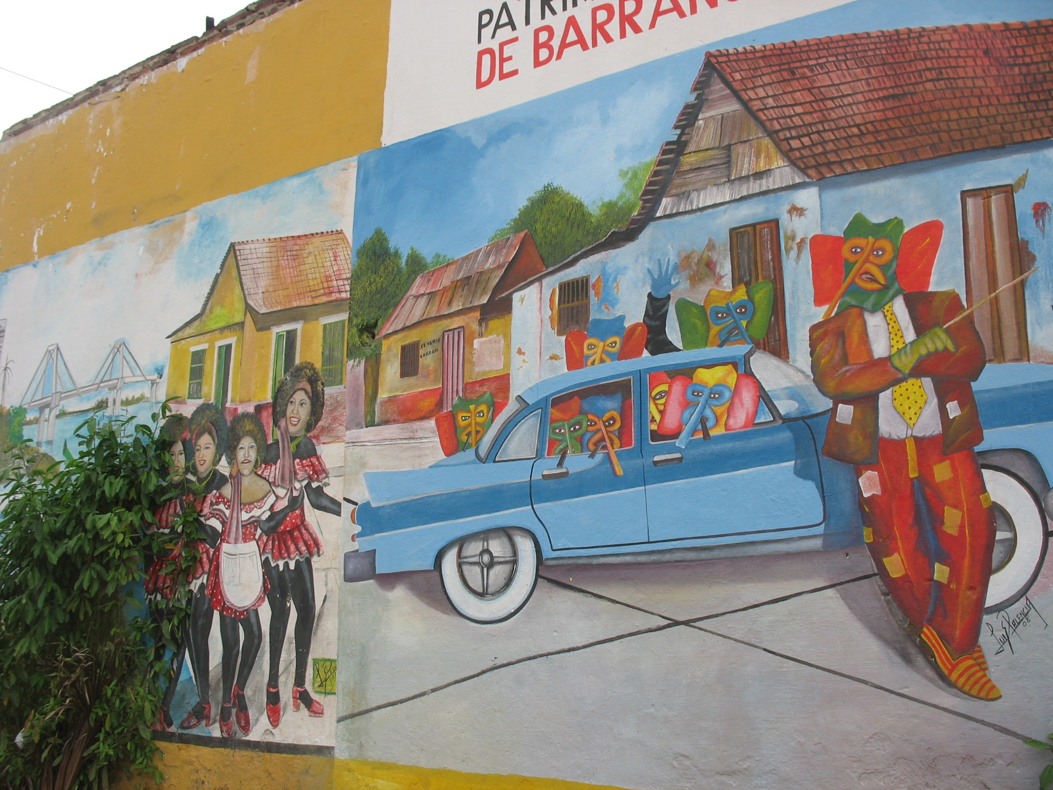 Barranquilla Carnival House